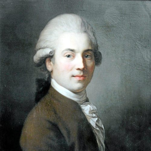 Detail from a portrait of German orientalist Johann Gottfried Eichhorn (1752–1827), oil on canvas.